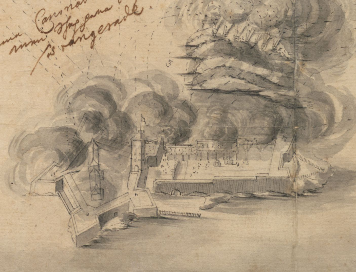 Details showing the swedish fortress Nya Älvsborg during the siege 1719.